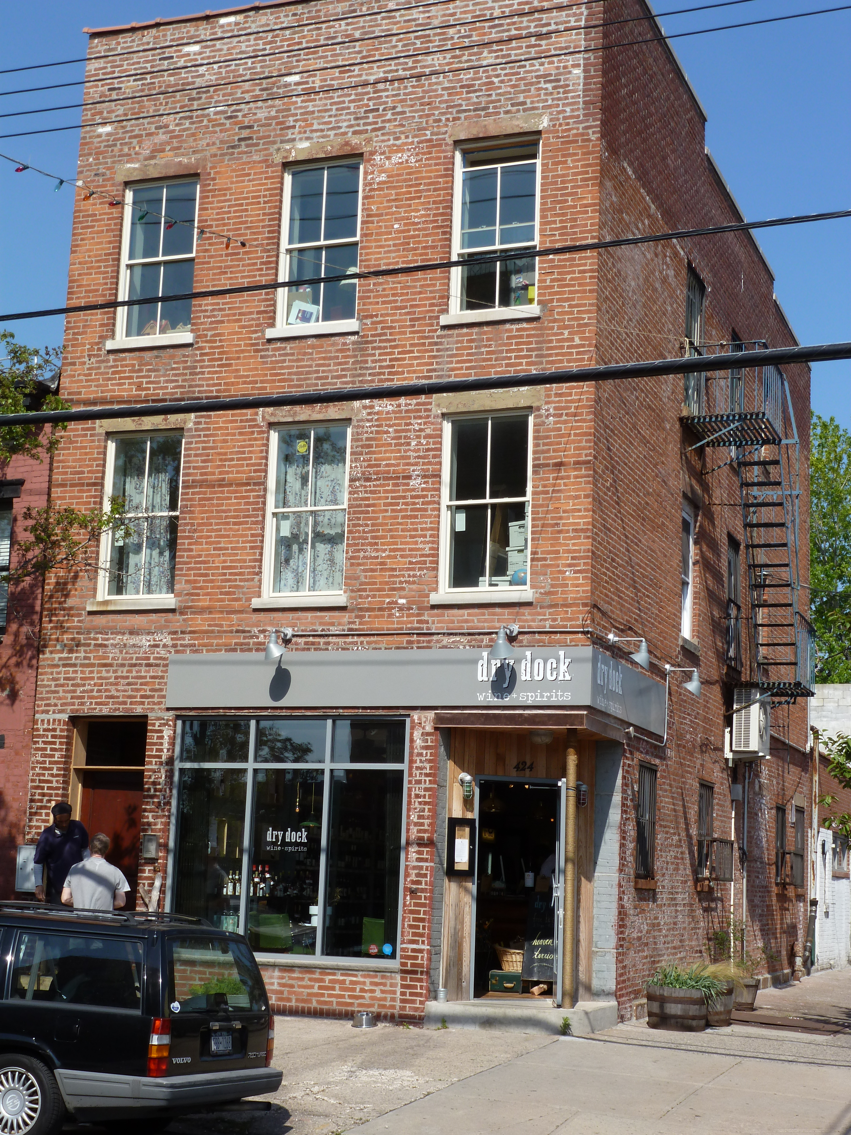 Dry Dock in a brick building in the 424 Van Brunt Street